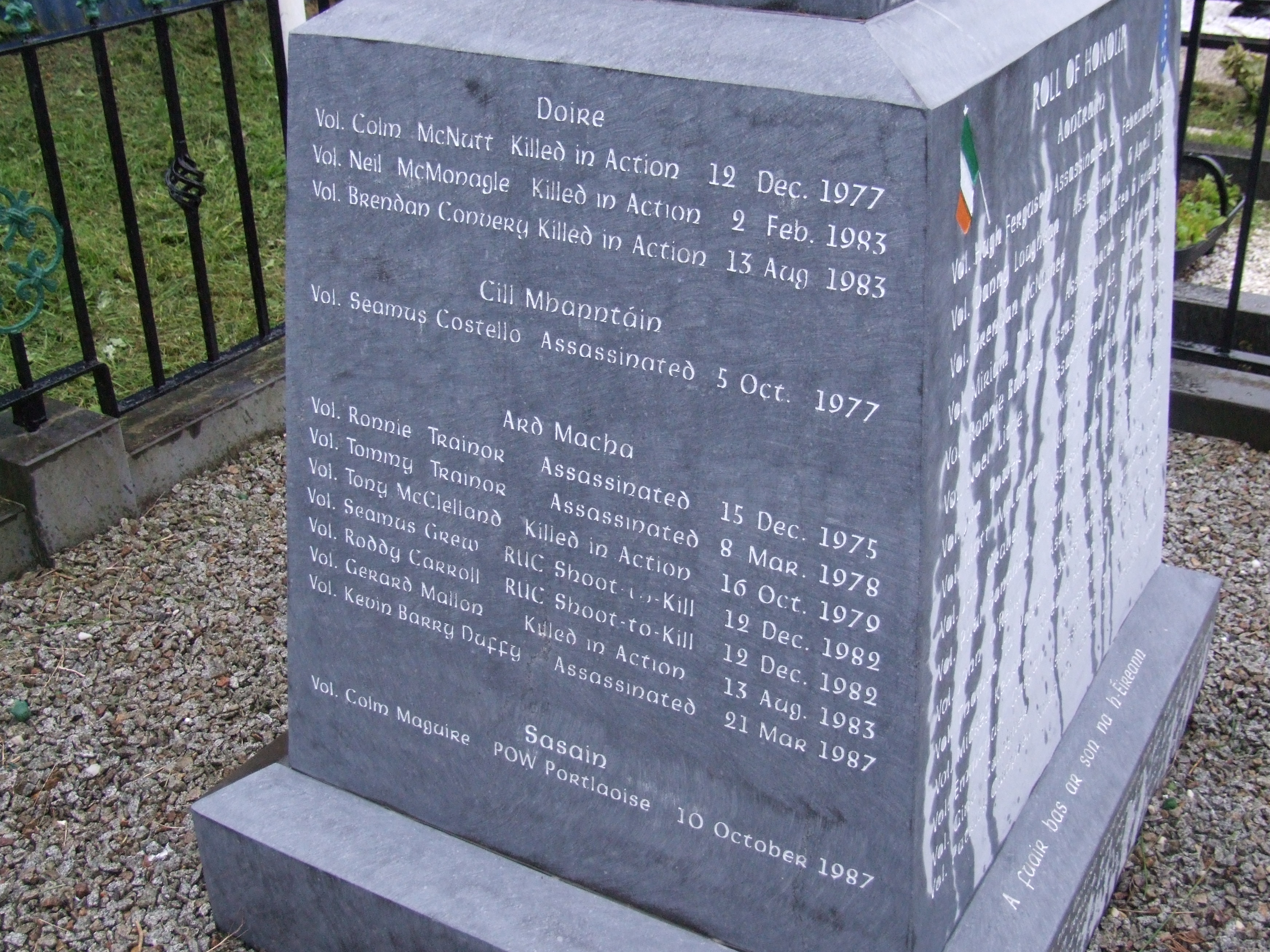 IRSP/INLA Plot, Milltown Cemetery, West Belfast, Northern Ireland